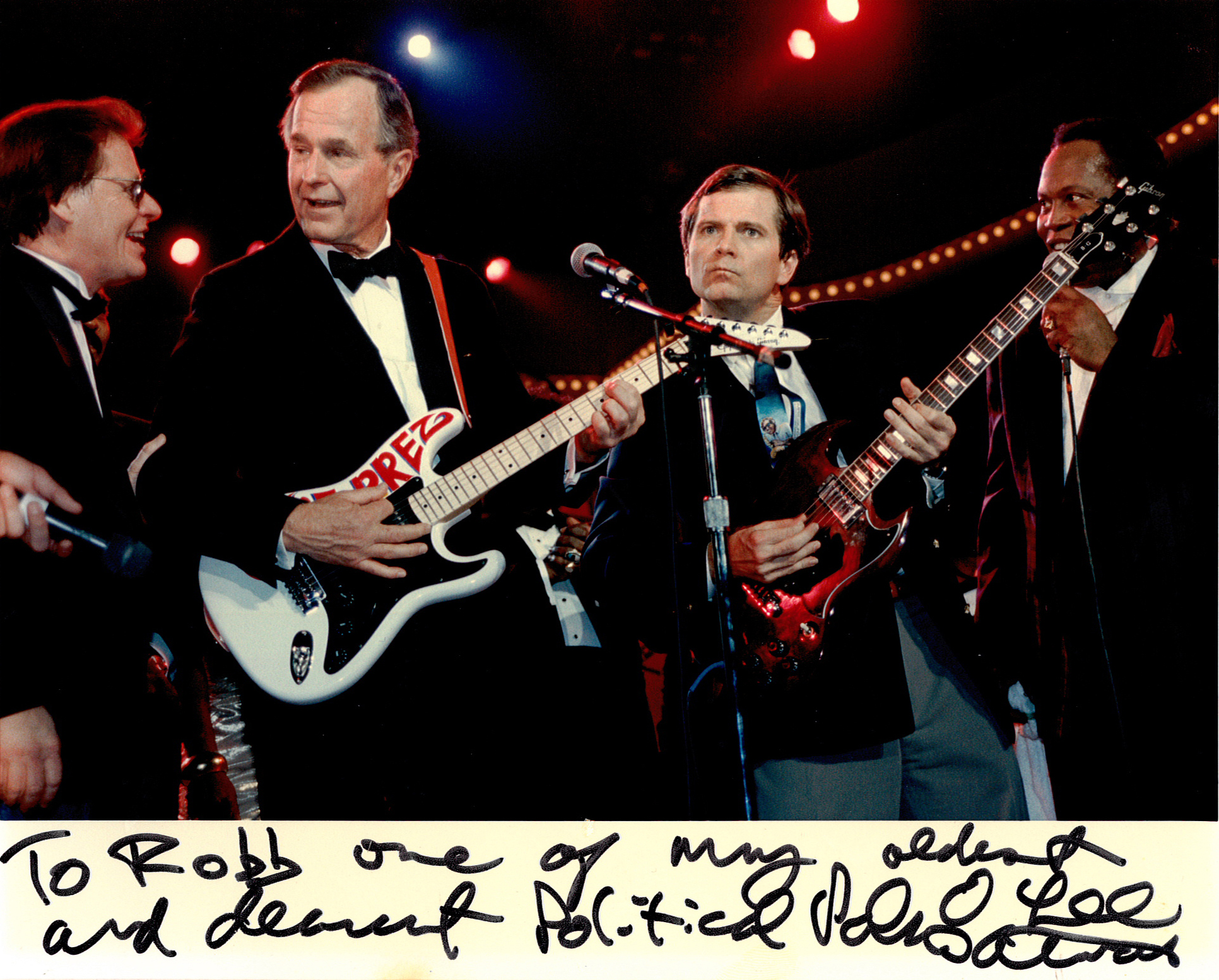 Lee Atwater "jams" with President George H.W. Bush at Inaugural festivity